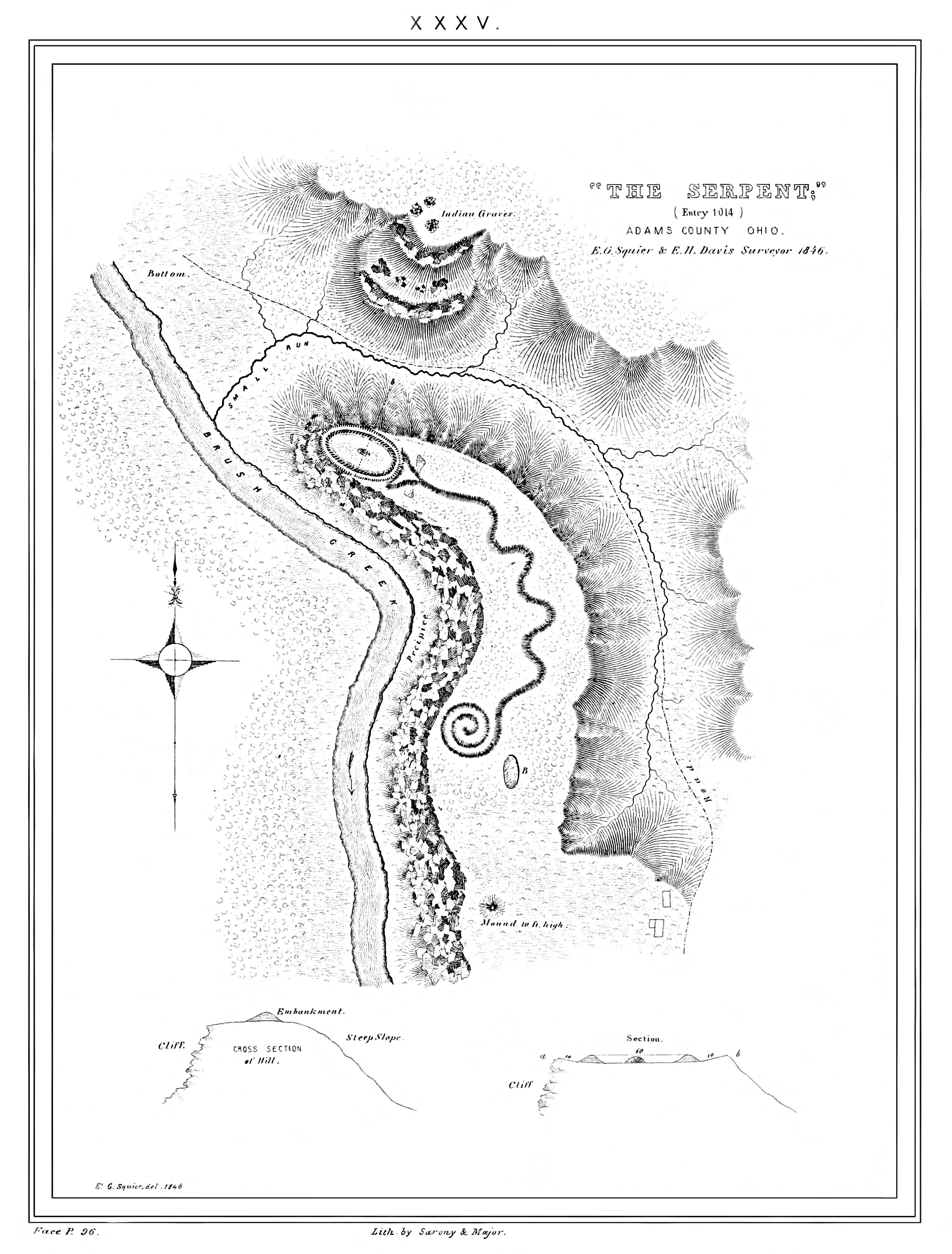 Plate XXXV from Ancient Monuments of the Mississippi Valley. Great Serpent in Adams County, Ohio.